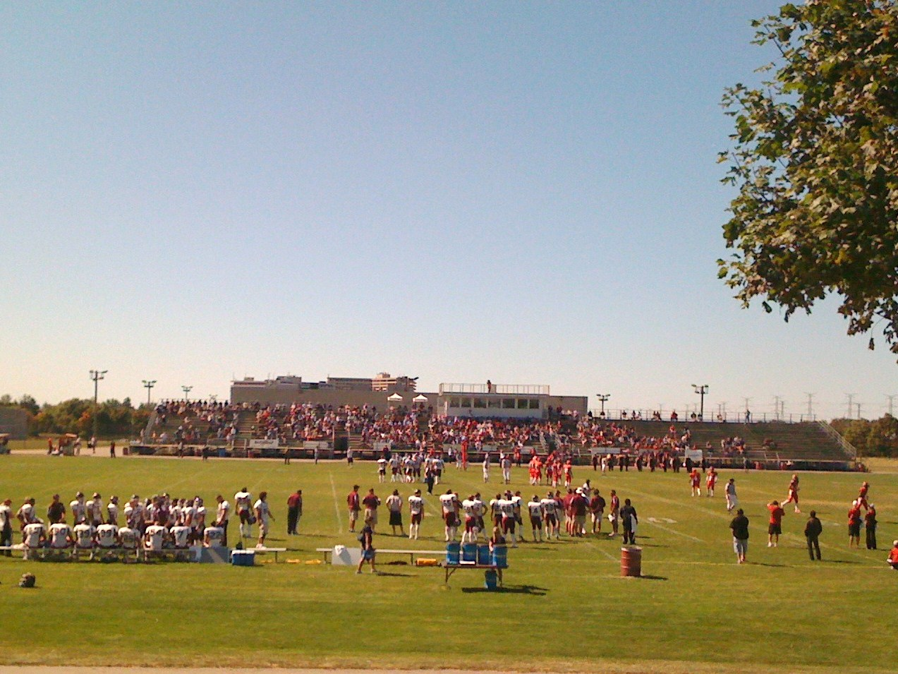 York Stadium, home of the York University York Lions, September 2009